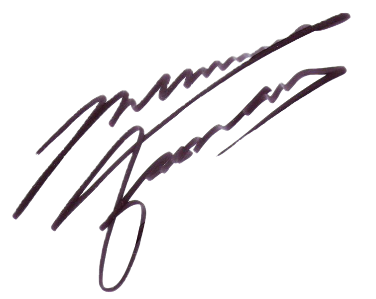 Kimhyunjoong signature at his Bangkok fan meeting